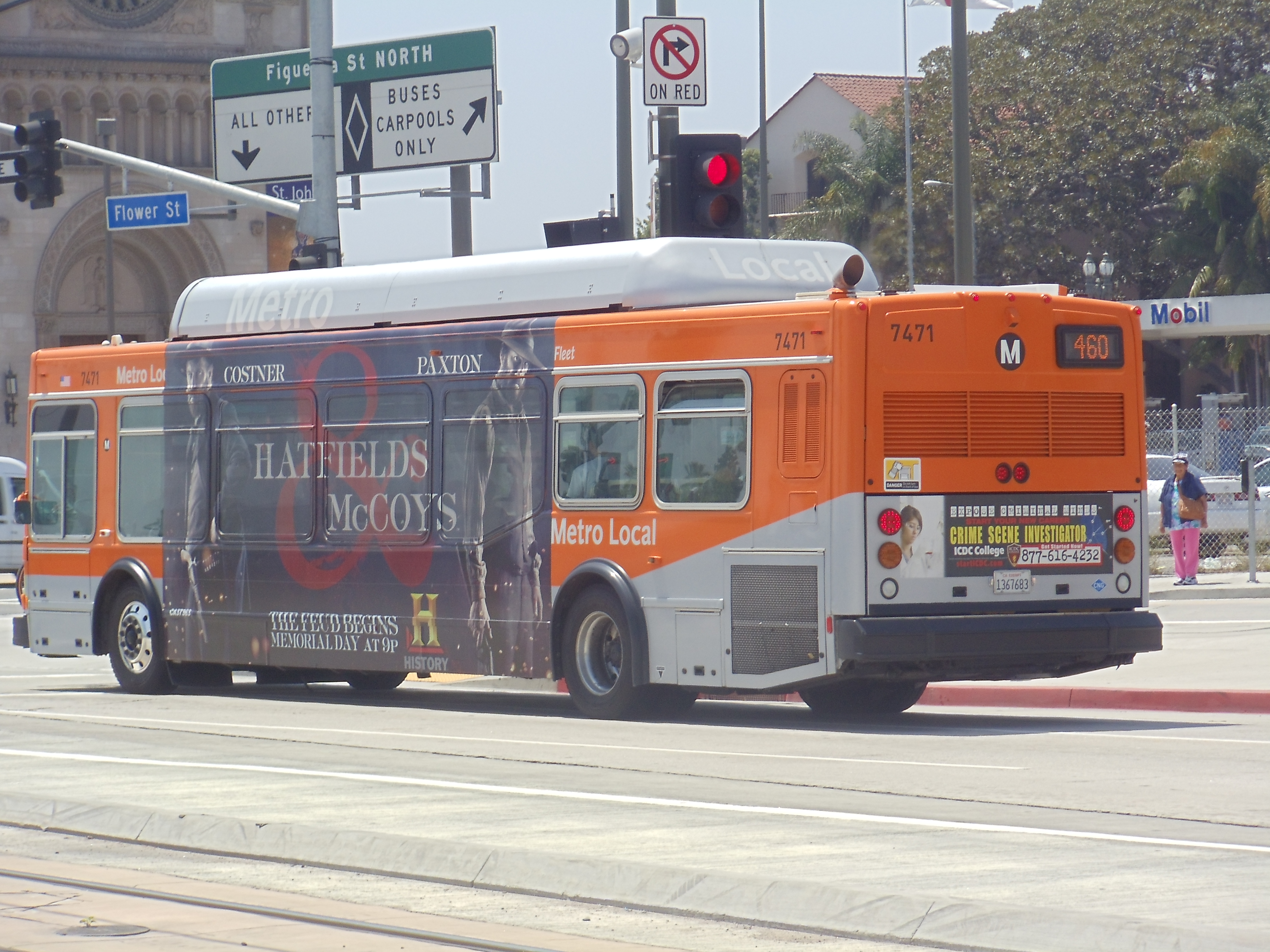 Metro Express Line 460 at Flower St. & Adams Blvd.